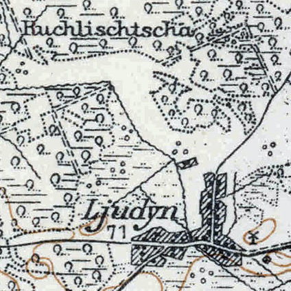 Liudyn on the map "Karte des Westlichen Russlands", T 35, 1917. According to Digital Repository of Scientific Institutes and Kujawsko-Pomorska Digital Library the map is in the public domain.